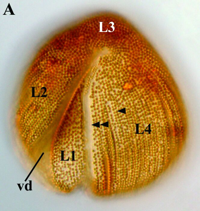 Light micrographs (LM) of Auranticordis quadriverberis n. gen. et sp. showing cell color, main cytoplasmic components, and variation in cell shape. A. Differential interference contrast (DIC) image focused on rows of longitudinally arranged orange muciferous bodies (arrowhead), the ventral groove (double arrowhead), lobe 1 (L1), a ventral depression (vd), L2, L3, and L4.